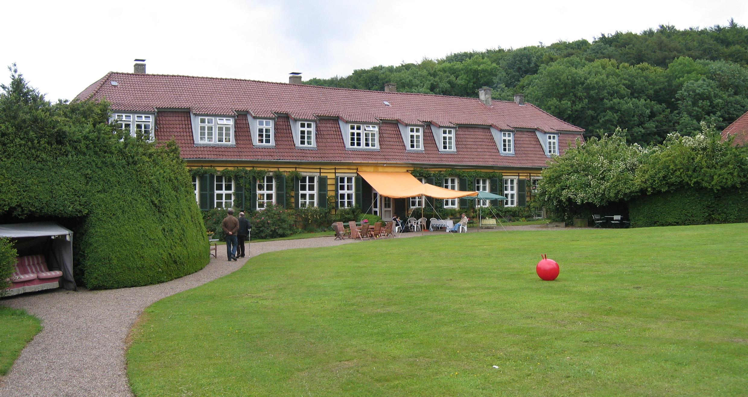 Obernfelde Manor in Lübbecke, District of Minden-Lübbecke, North Rhine-Westphalia, Germany.